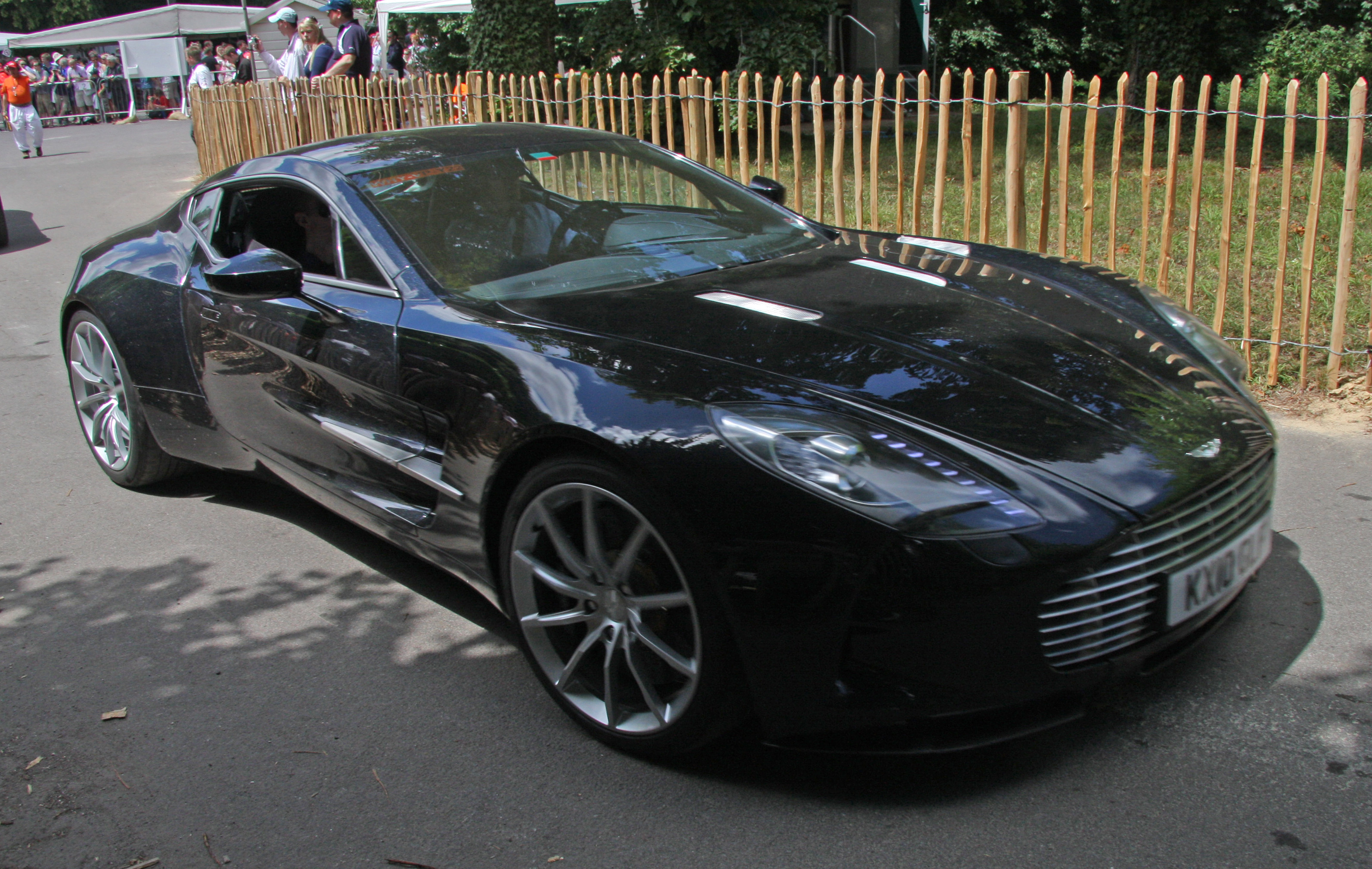 Aston Martin one-77